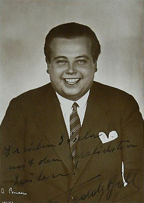 Publicity postcard portrait of Austrian actor Teddy Bill (18 November 1900 – 11 February 1949) by Alexander Binder.